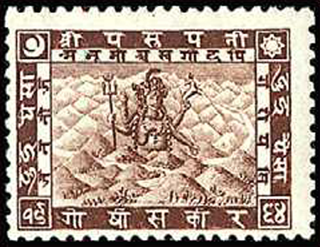 Postage stamp issued by Gorkha Government in 1907.